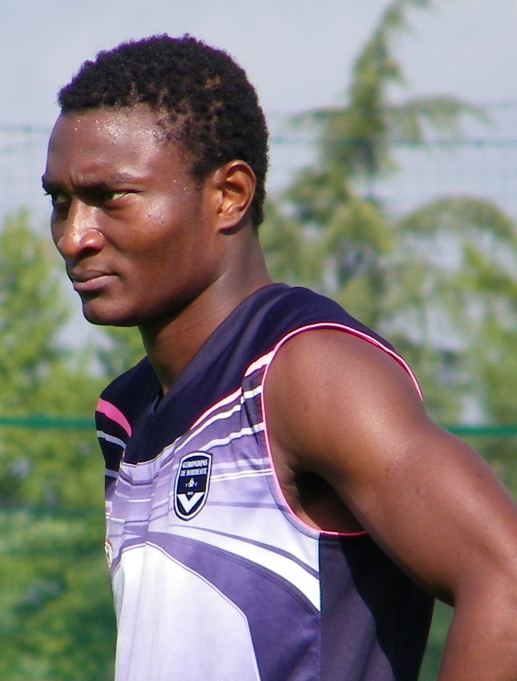 Moussa Maazou